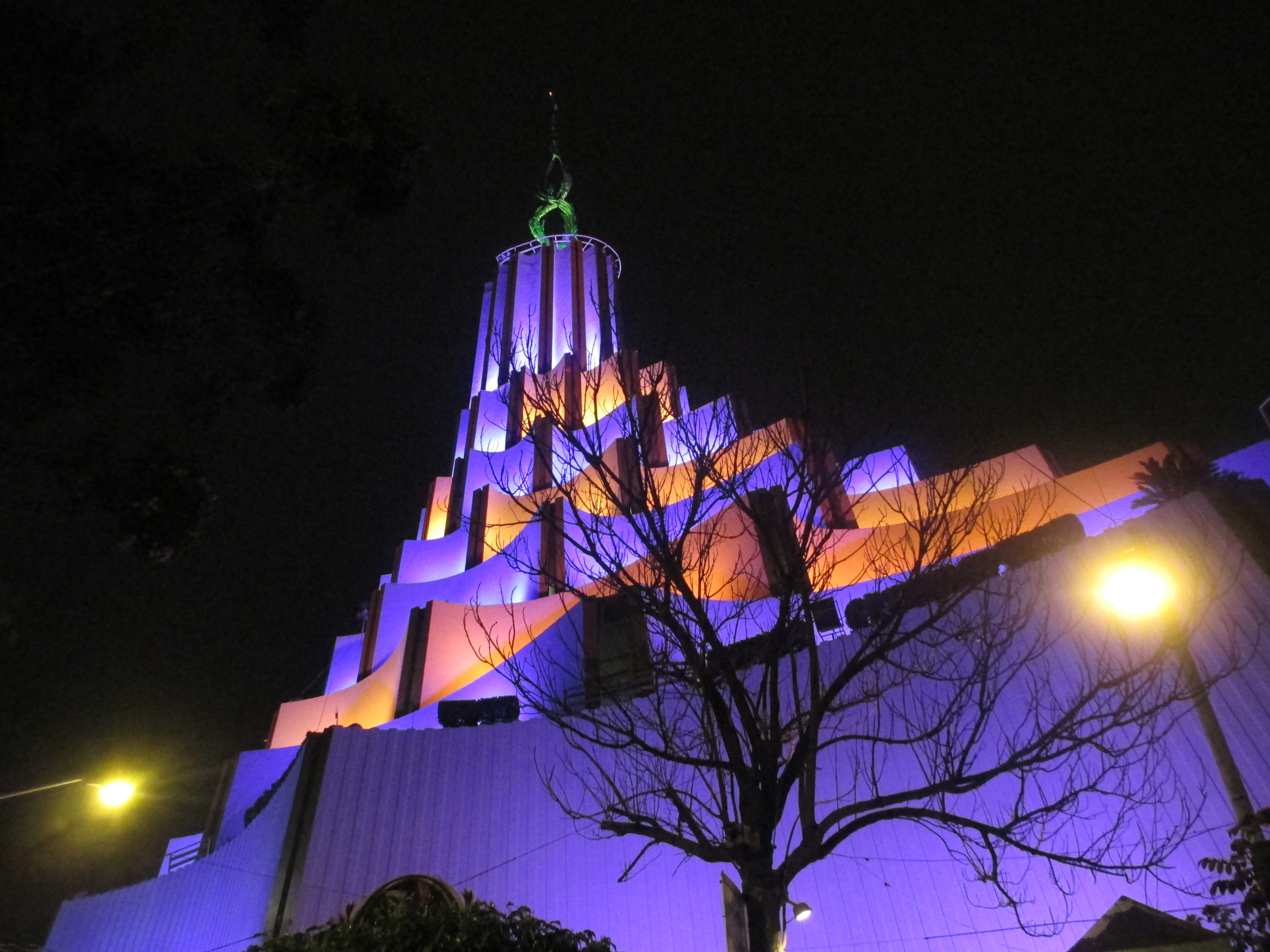 Temple of La Luz del Mundo at night; side view.